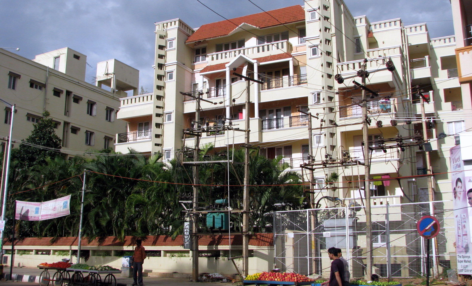 Golf Manor Apartment